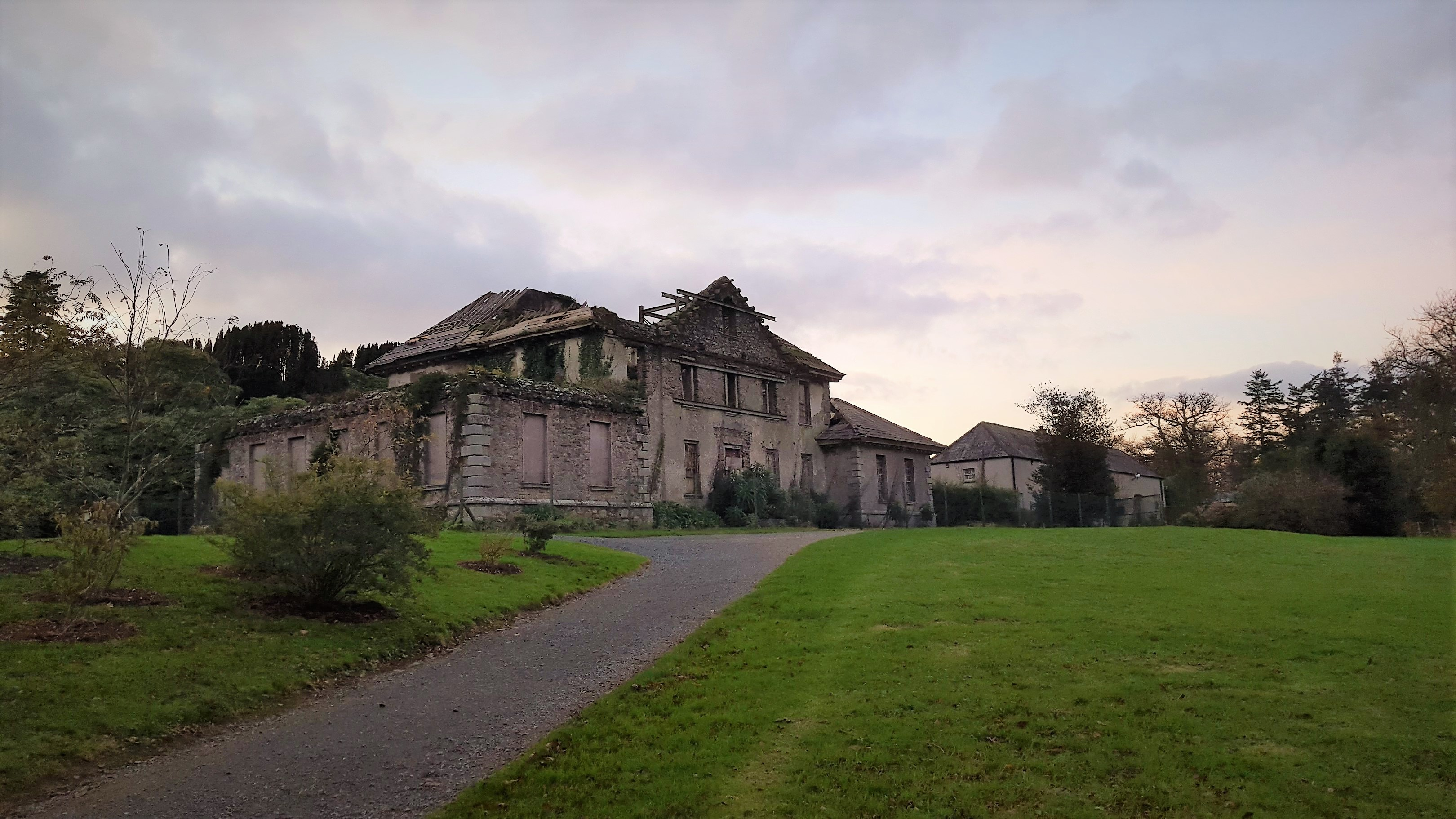 Picture of the Acton family house in Kilmacurragh National Botanic Gardens.